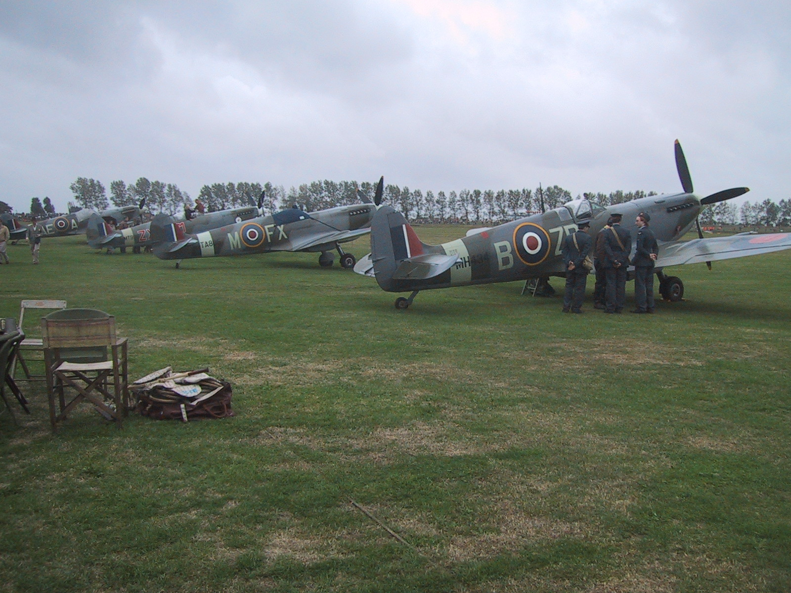 Spitfires at Goodwood, Sussex, 2006.